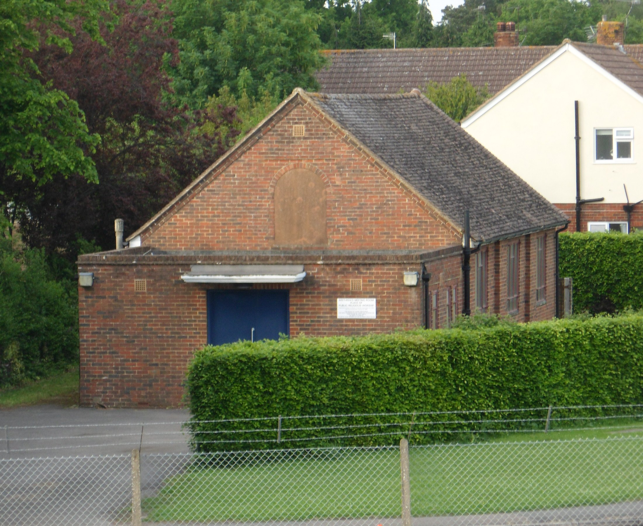 Grove Meeting Room (Plymouth Brethren), The Grove, Horley, Reigate and Banstead District, Surrey, England.